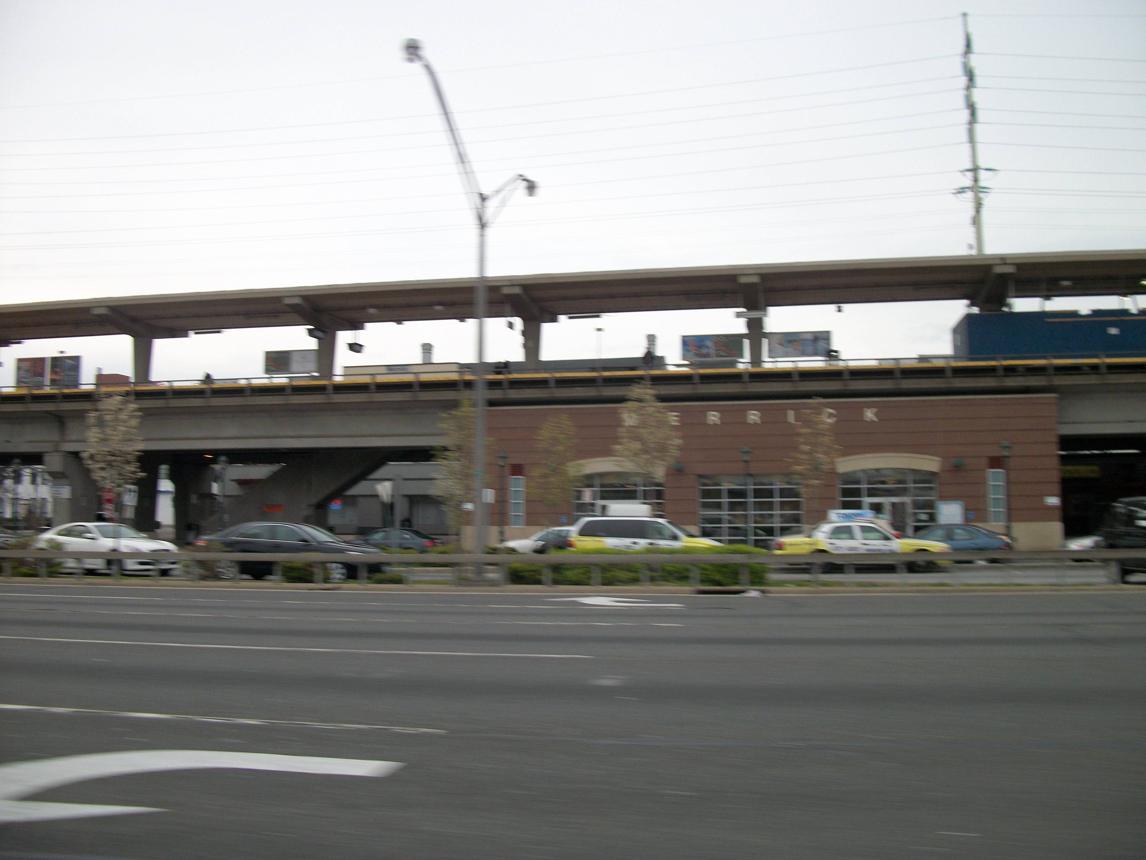 Merrick (LIRR station) as seen from the eastbound lanes of New York State Route 27 in Merrick, New York.